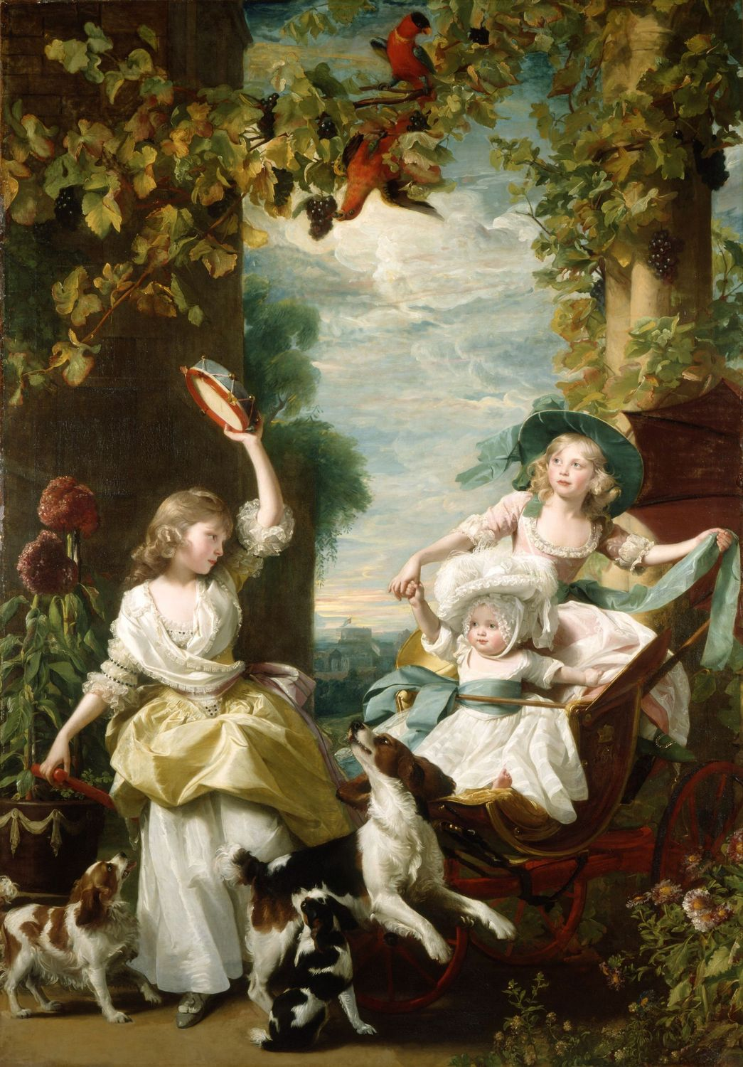 Princesses Sophia (1777–1848), Mary (1776–1857) and Amelia (1783–1810)